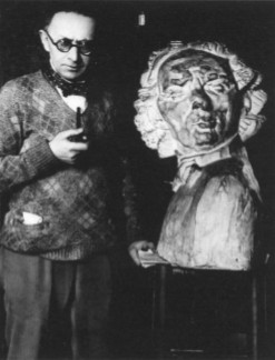 Artist Alfred Wolmark posing with a bust of himself made by Henri Gaudier-Brzeska, circa 1913.